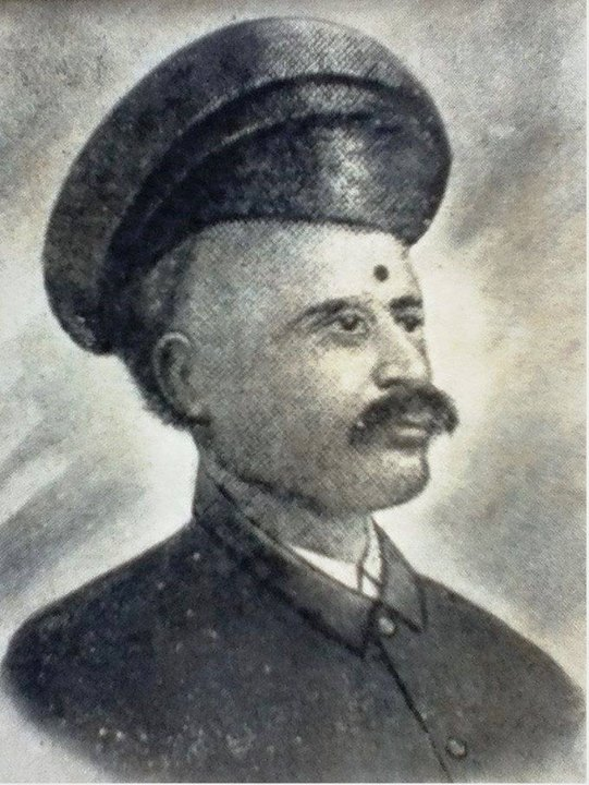 Image features the portrait of an Indian aeronautical and Vedas scholar Shivkar Talpade